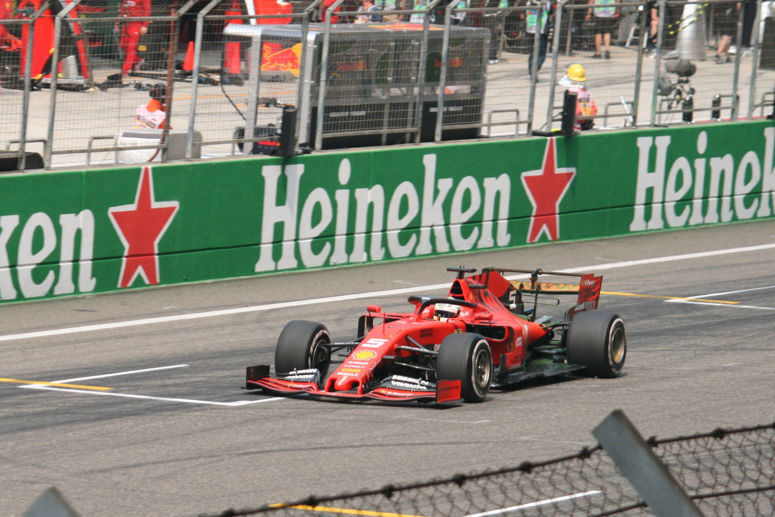 Sebastian Vettel, 2019 Chinese GP